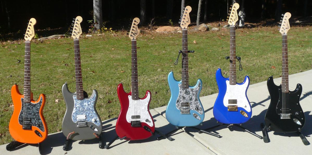 Here are all six factory colors for the Squier Bullet Special guitar.